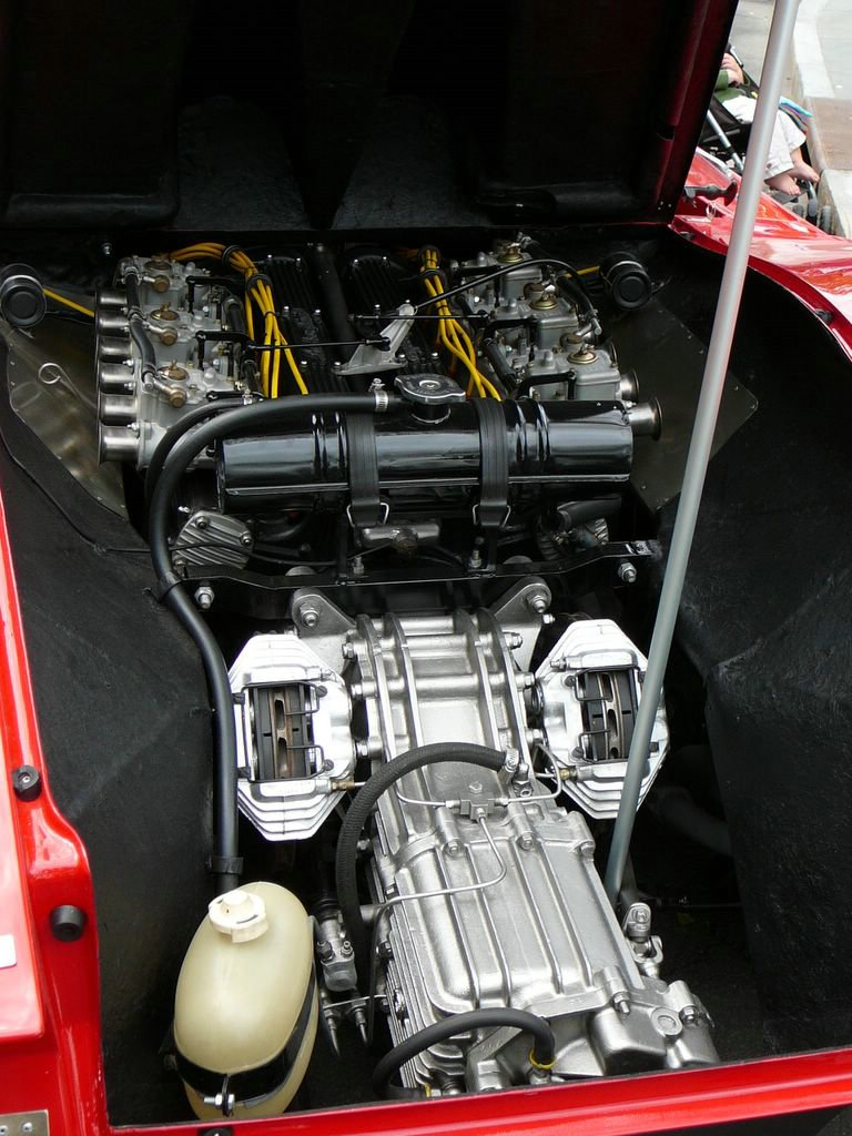 1967 Bizzarrini P538 (chassis #002), with Lamborghini V12 engine installed.